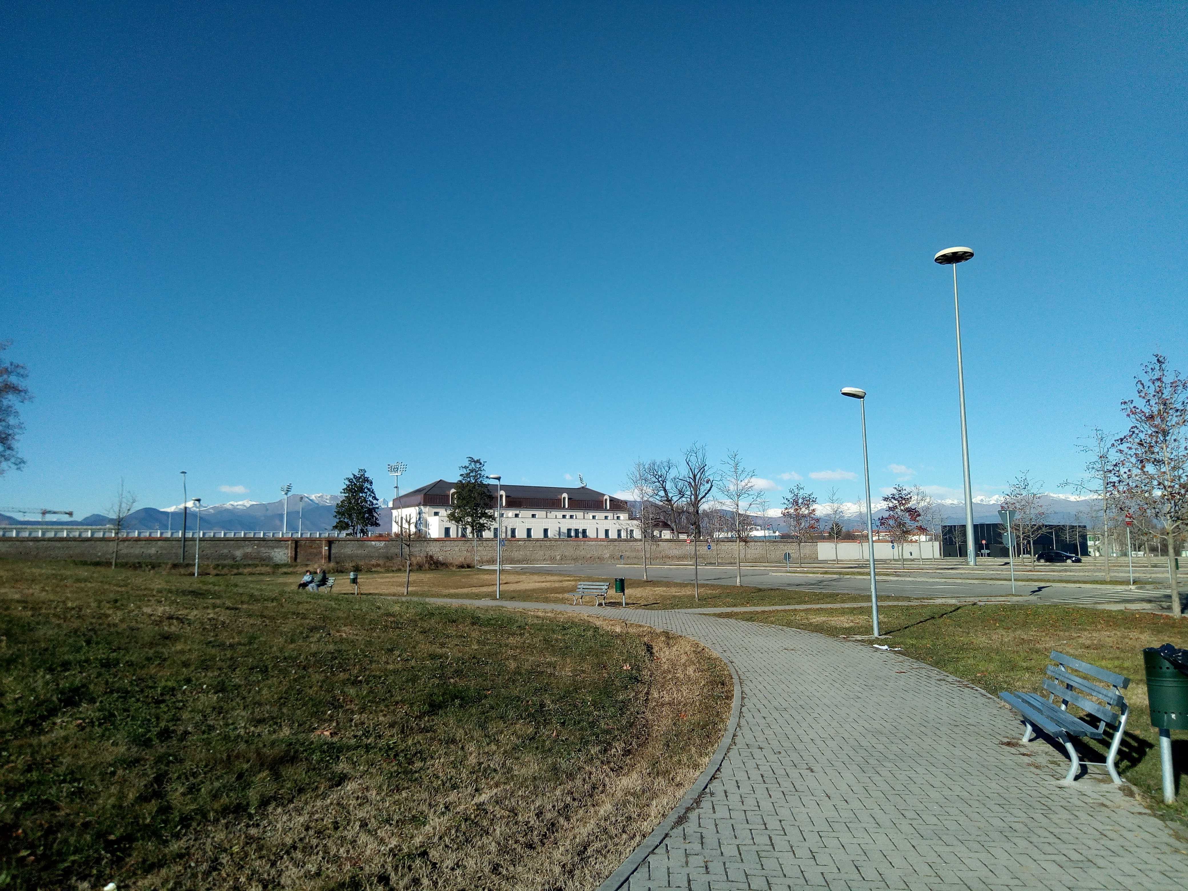 Continassa area in Turin with the Juventus FC headquarter